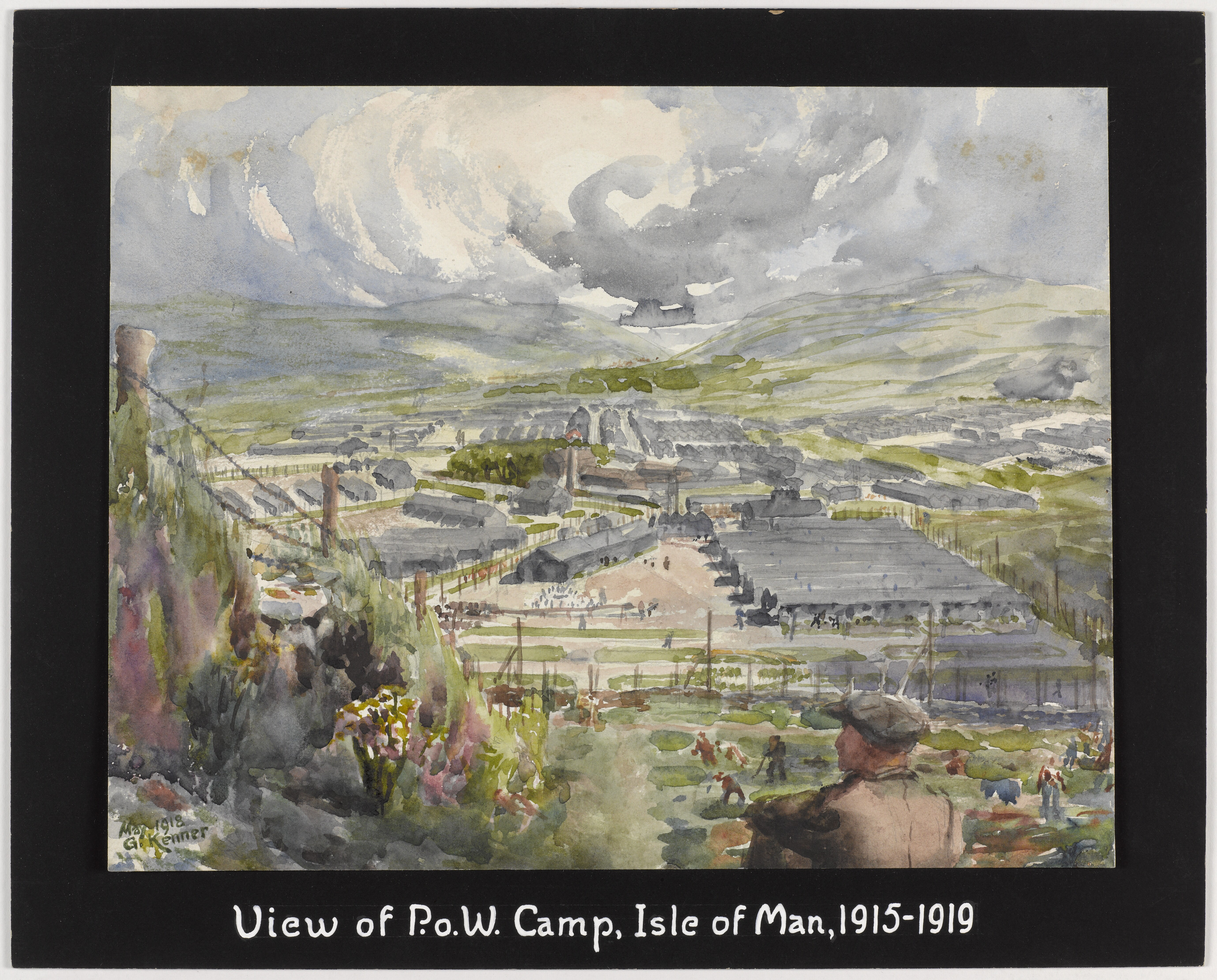 View of a Pow Camp, Isle of Man, 1915-1919 image: a view looking down at the camp from a hillside, with a seated prisoner in the foreground. The camp stands in a valley and consists of rows of low huts, surrounded by a high wire fence. On the hillside in the foreground prisoners in brown clothing appear to be at work, tending the gardens.